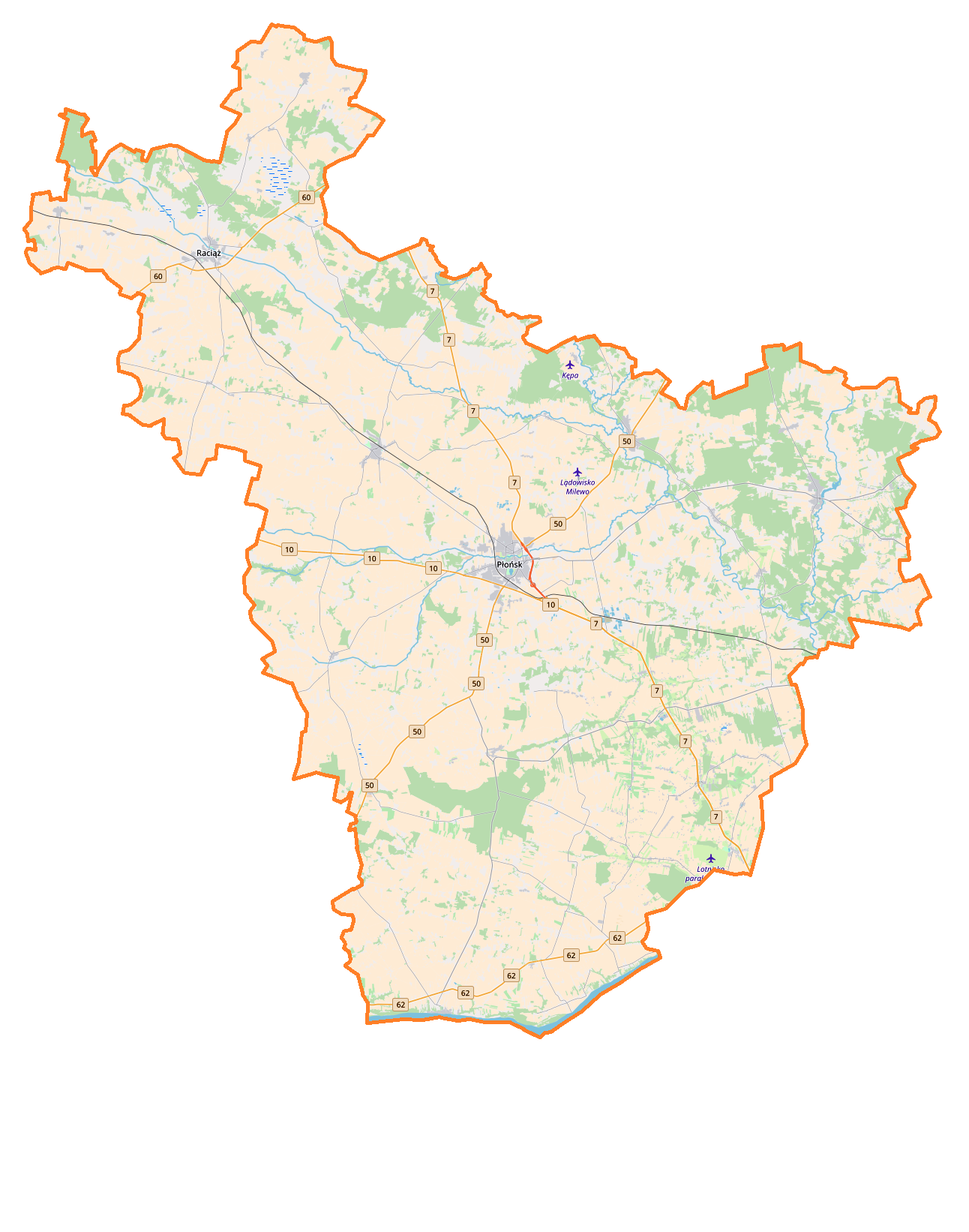 Map of Powiat płoński, Poland This map of Powiat płoński was created from OpenStreetMap project data, collected by the community. This map may be incomplete, and may contain errors. Don't rely solely on it for navigation.